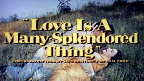 Love Is A Many Splendored Thing, Henry King 1955